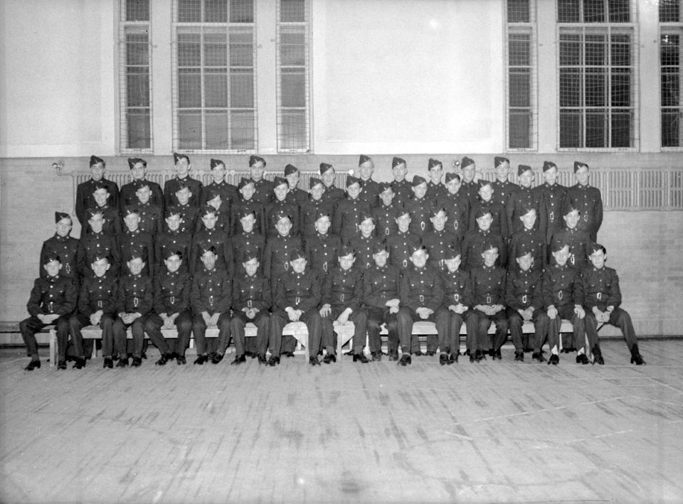 We see the Air Cadet of the "St Lambert High School" in Saint-Lambert.